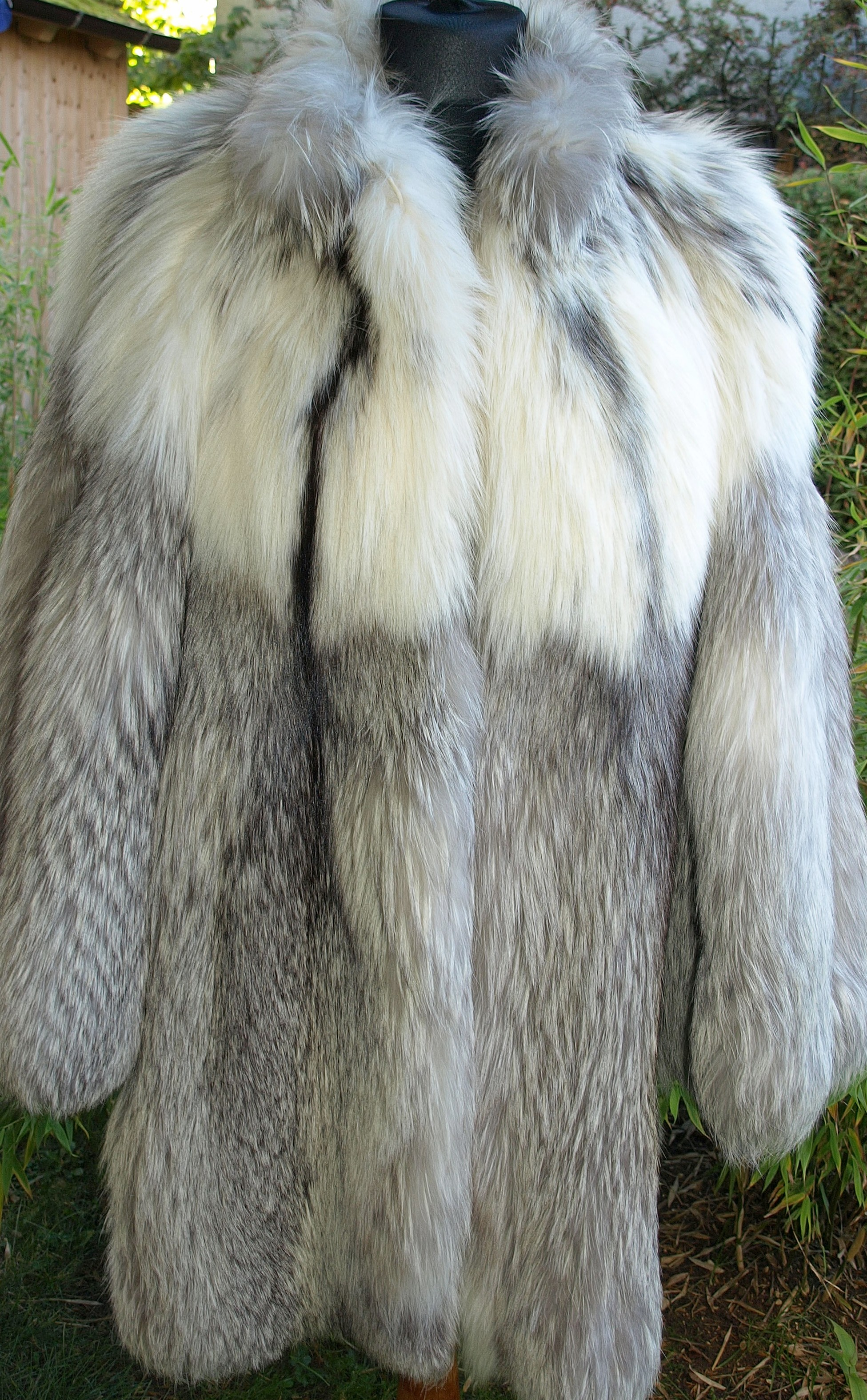 Platin fox fur cape